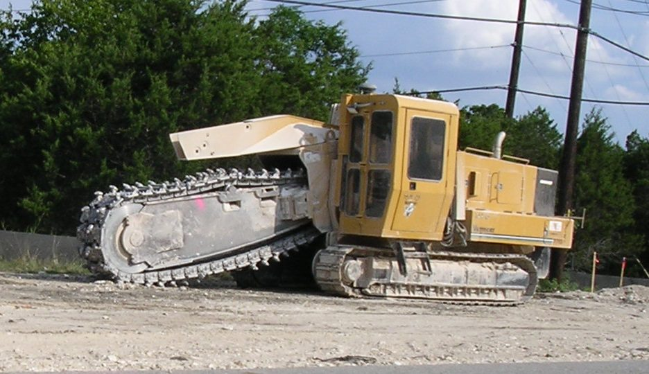 track trencher. see Trencher (machine)